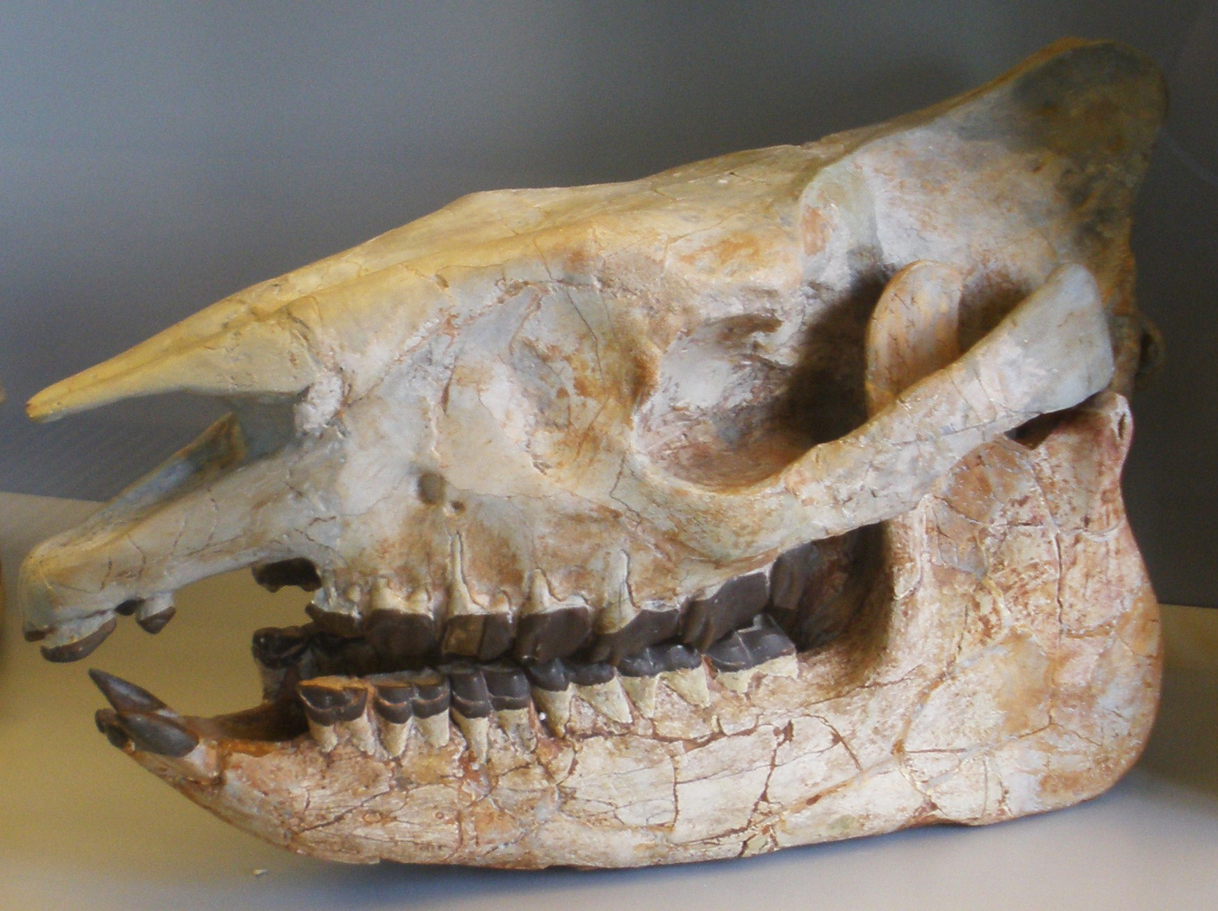 fossil Caenopus